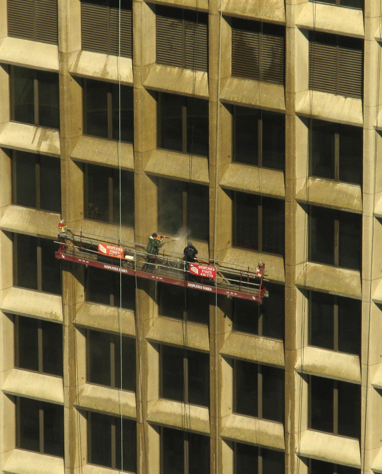 Cleaning the Province building at Granville Square, Vancouver. Taken by me, March 2007.